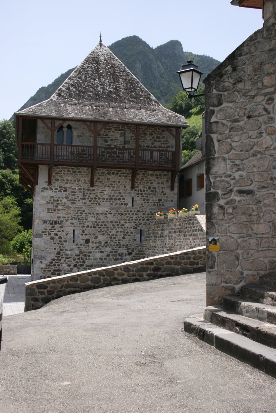 Mayor's office of the medieval village of Borce, placed at the upper end of the Aspe valley, Béarn (now Pyrénées-Atlantiques), France. The building is one of the fortified houses of Borce (note the embrasures).